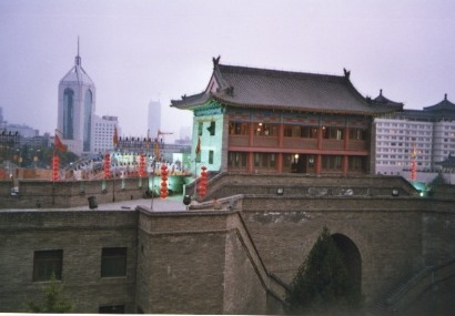 Xi'an Drum Tower